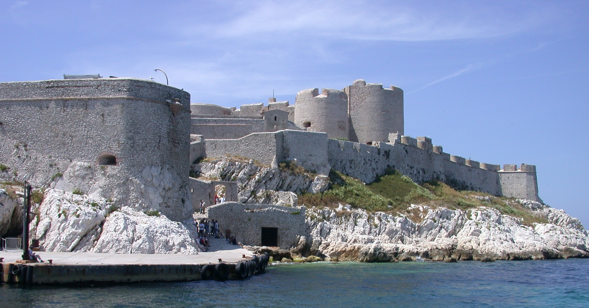 Marseille, Château d'If, as seen from ferry.